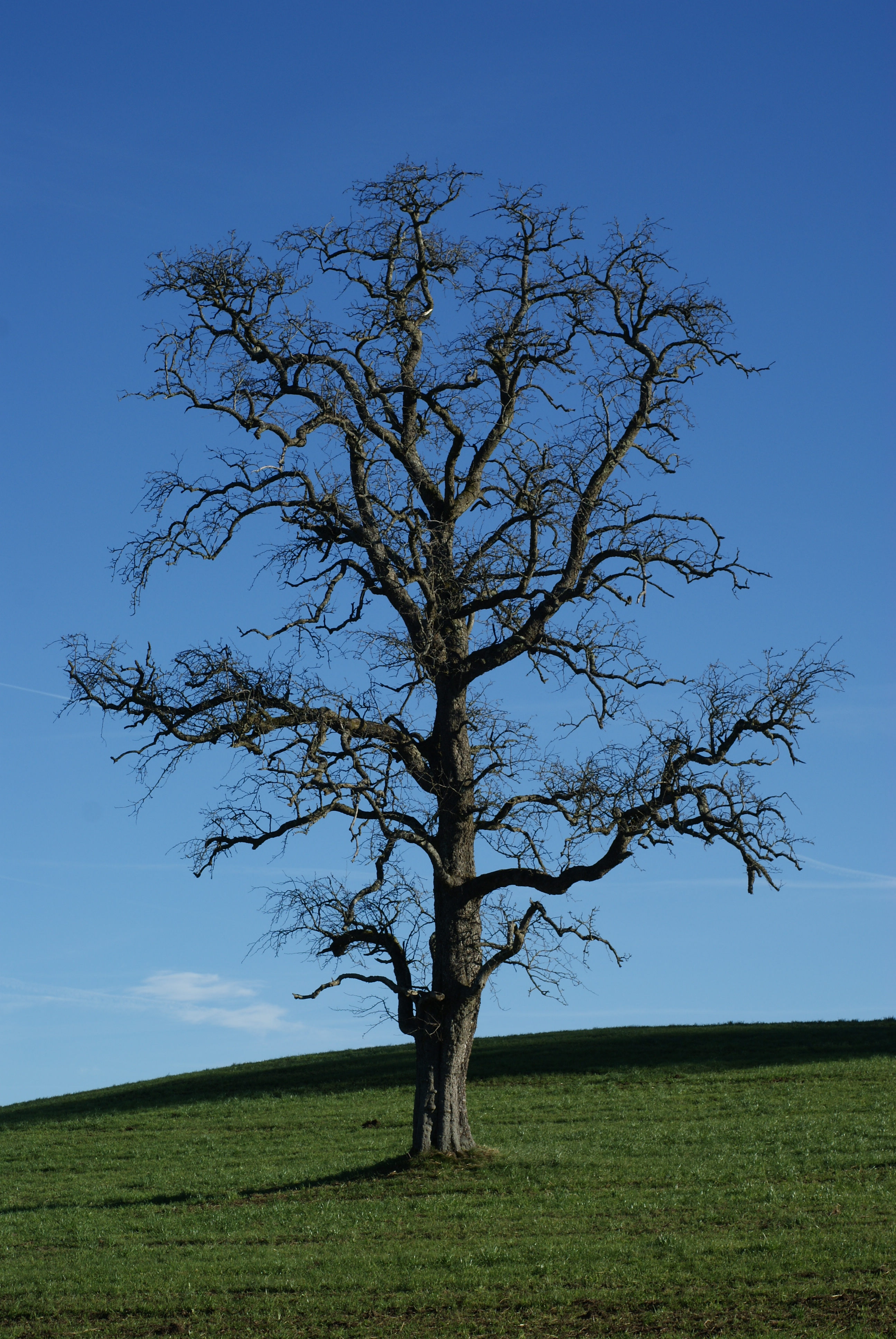 Tree of "Kalchbühler", a pear variety from the Zürichsee region (Switzerland).